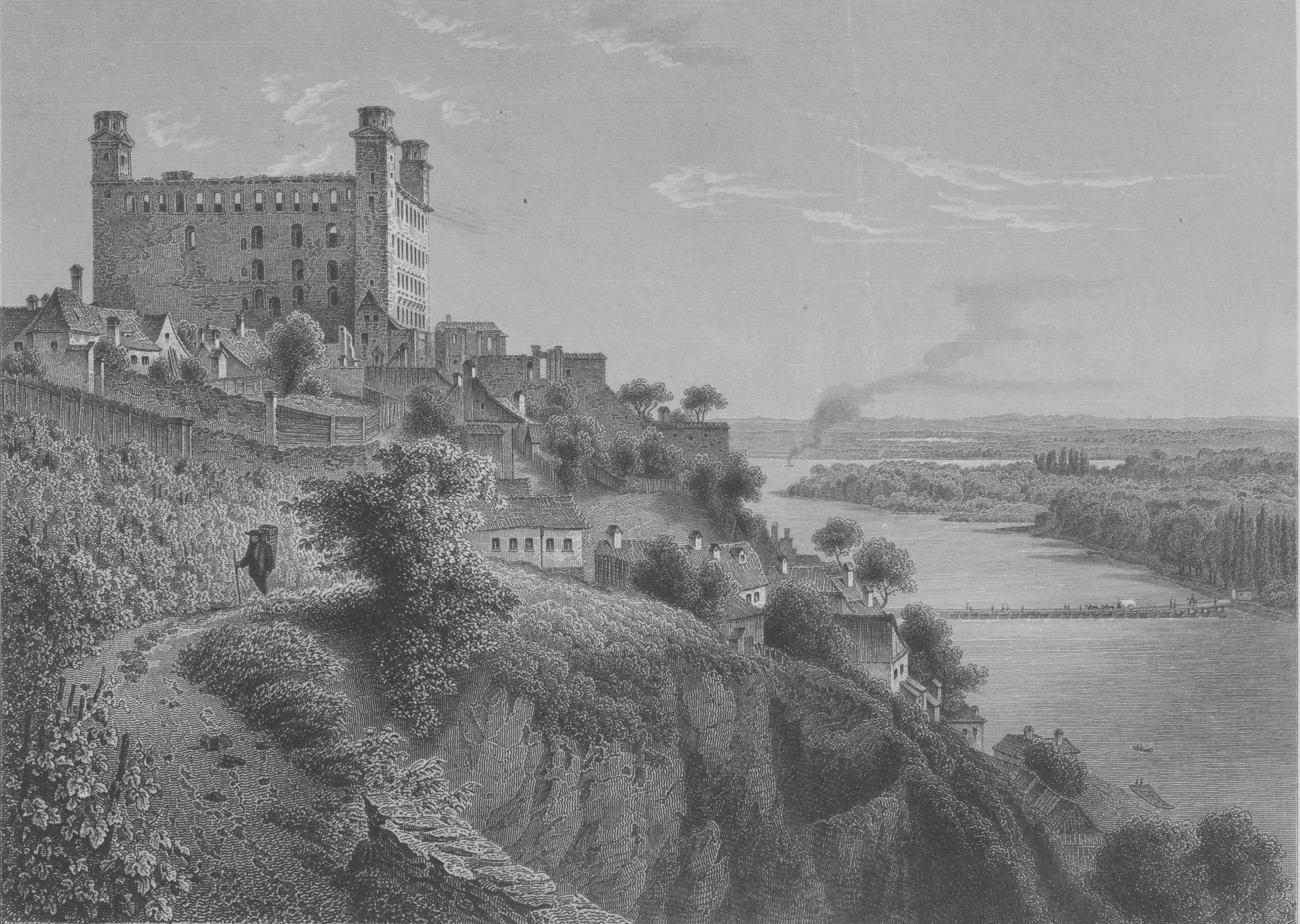 Burned Bratislava (Pressburg) Castle, mid-1800s.